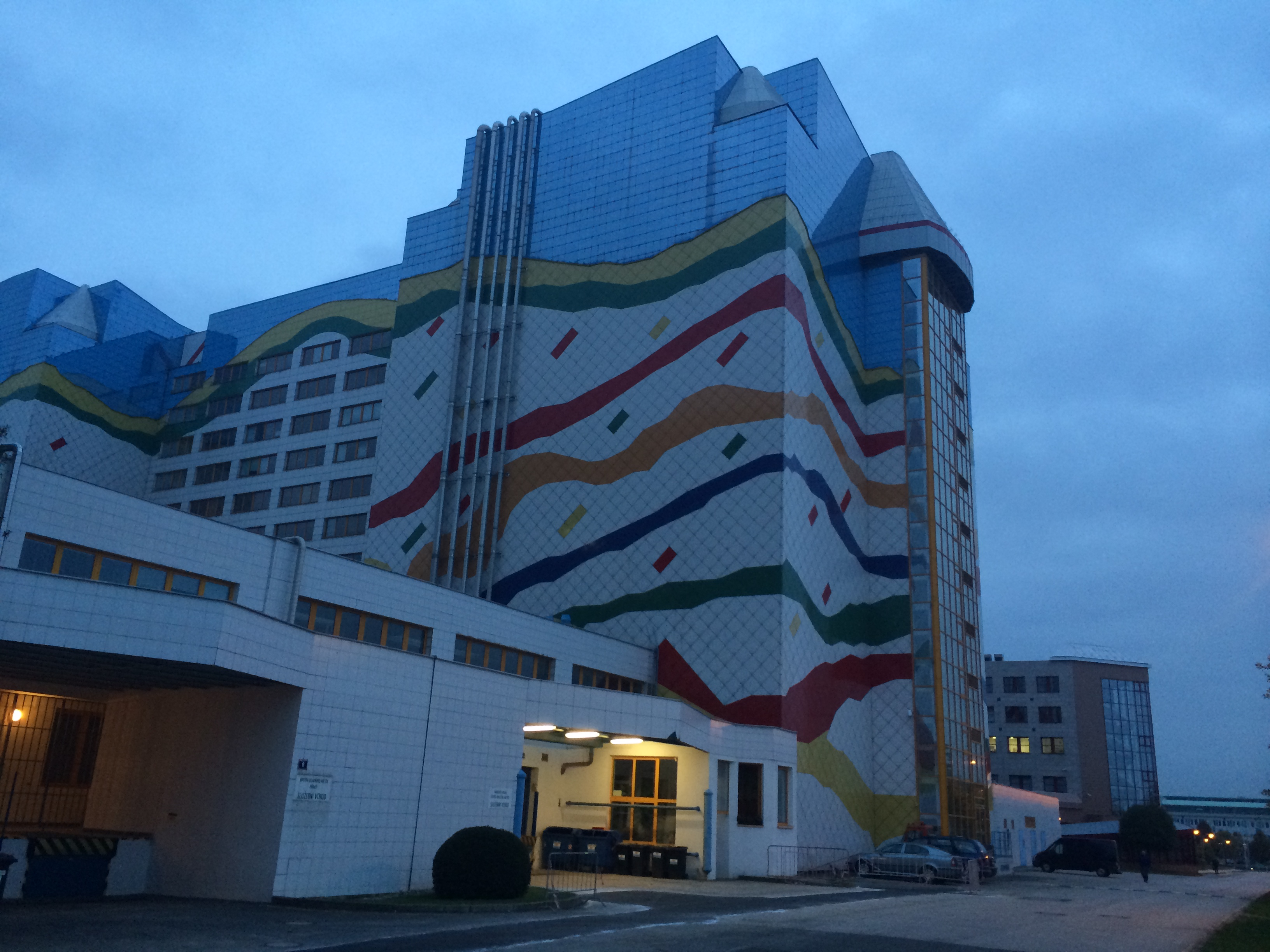 Prague City Archives